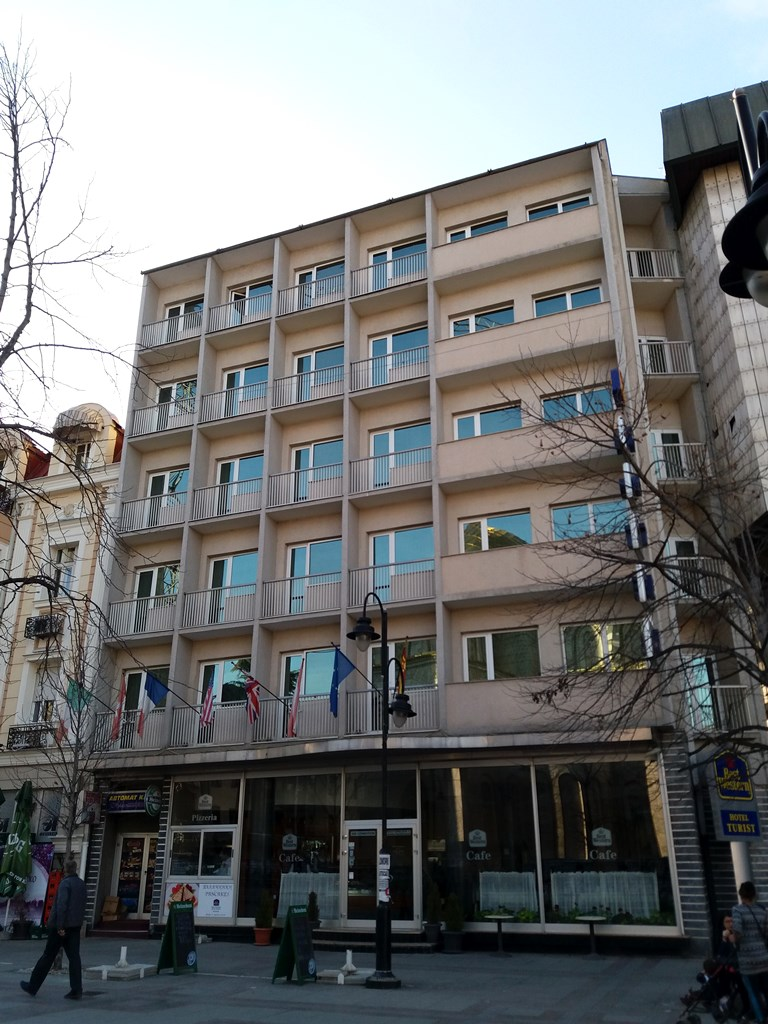 Поранешен хотел Турист, на архитект Драган Томовски во Скопје